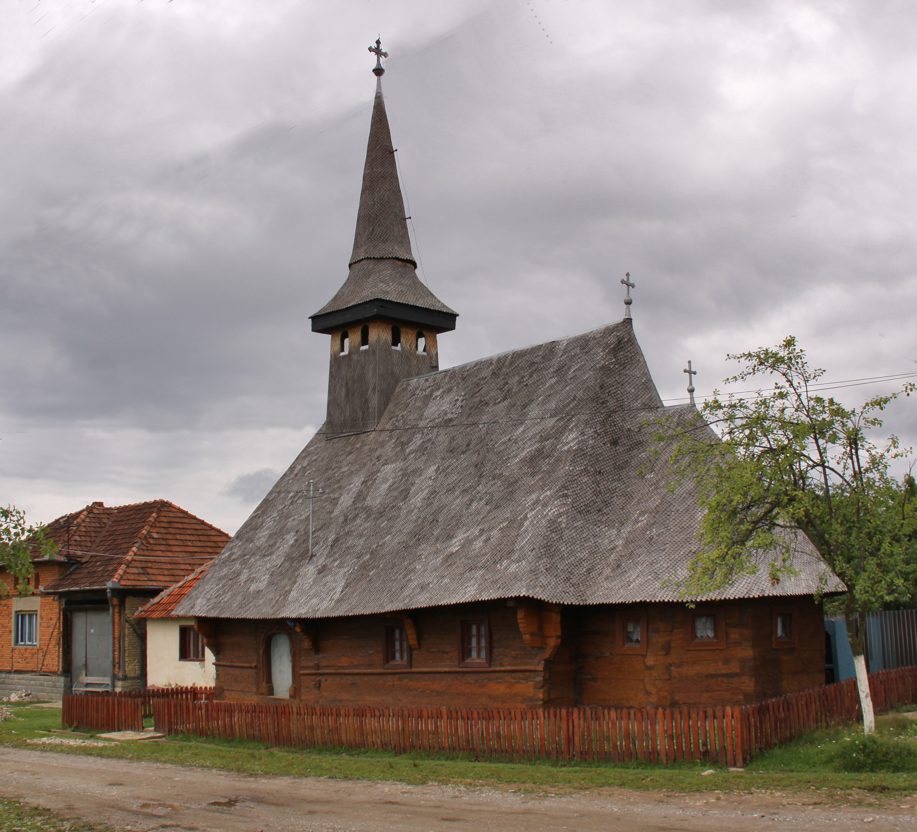 Saca, Bihor, the wooden church: esterior.